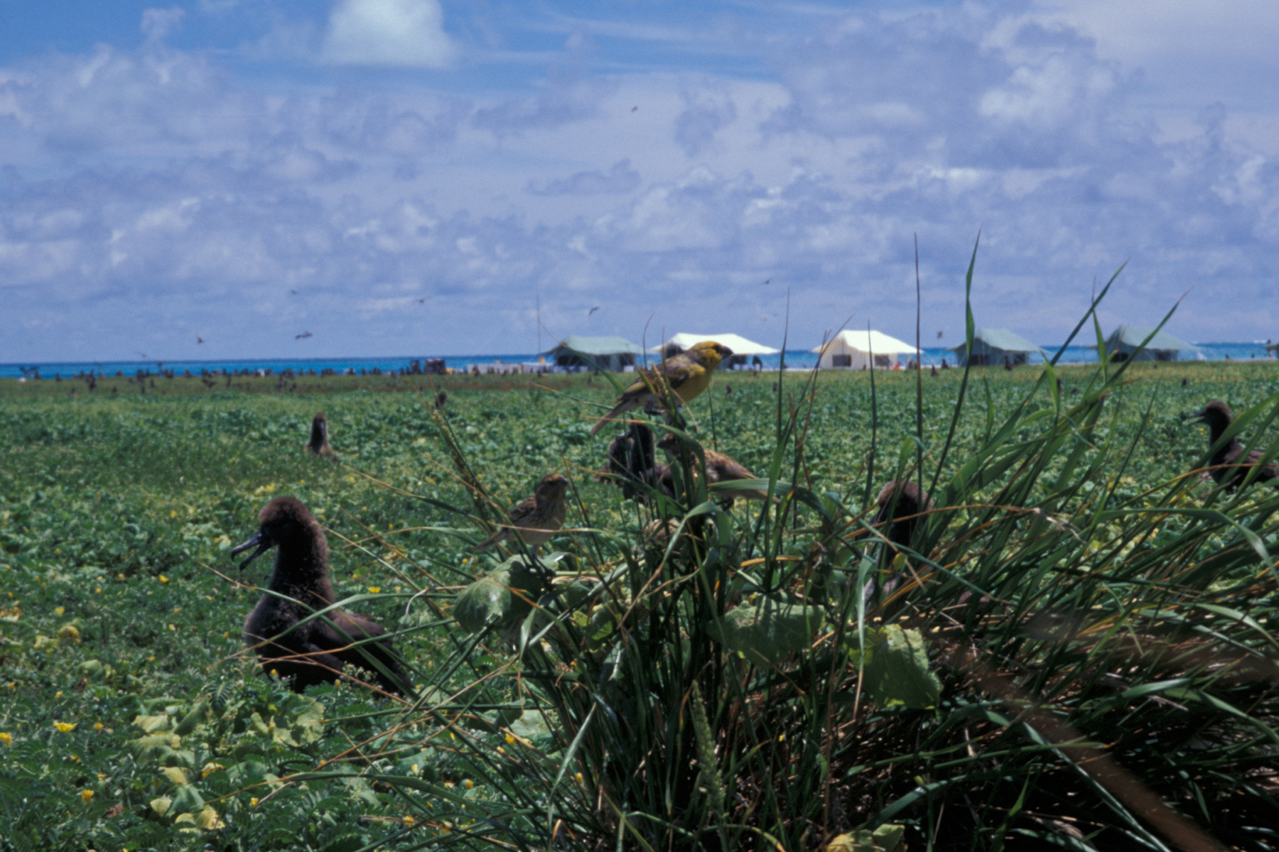 Eragrostis variabilis (with Laysan finches). Location: Pearl and Hermes Atoll, Southeast Island